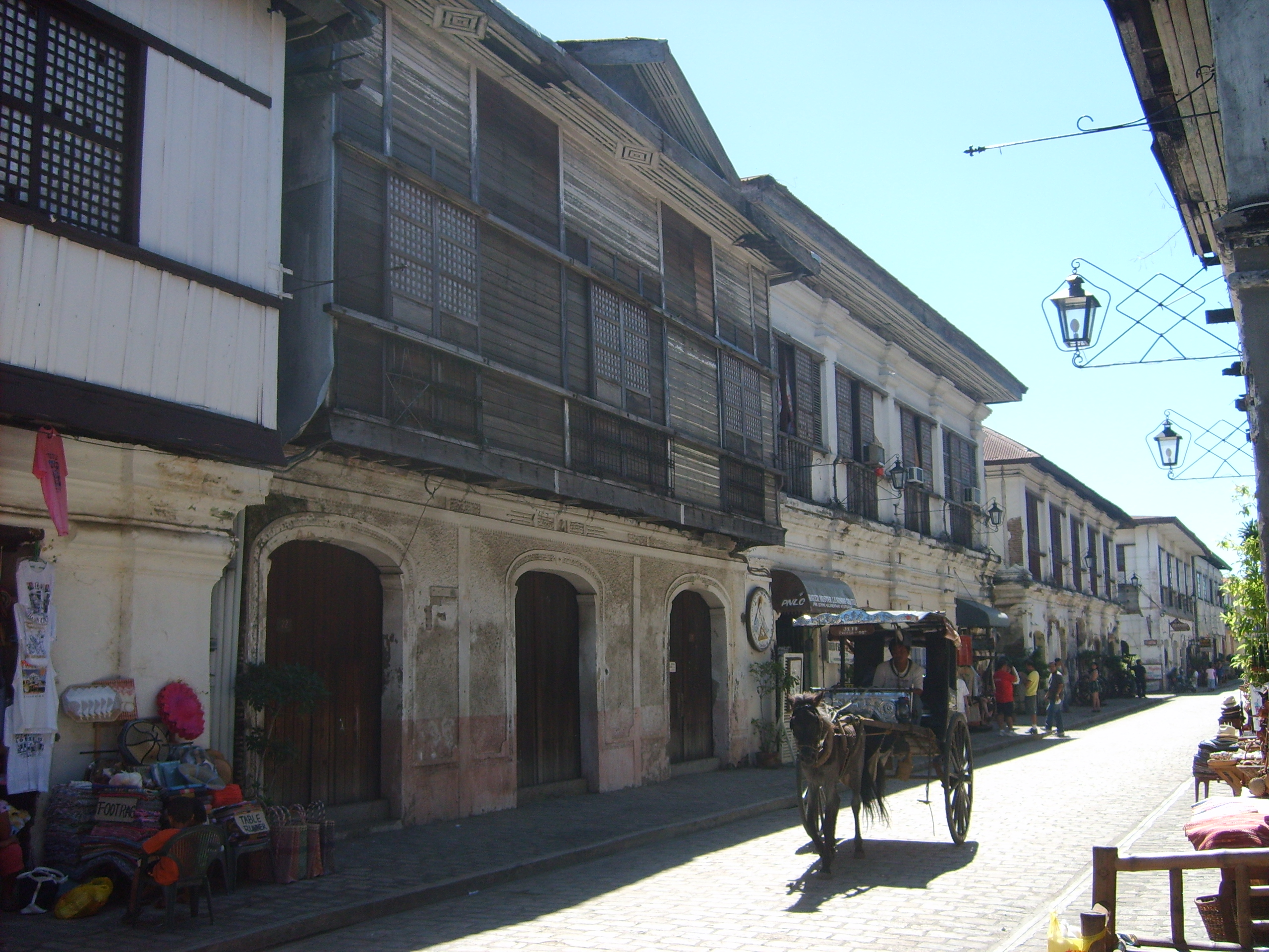 Spanish colonial architecture on the Calle Crisologo in Vigan, Ilocos Sur, Philippines.